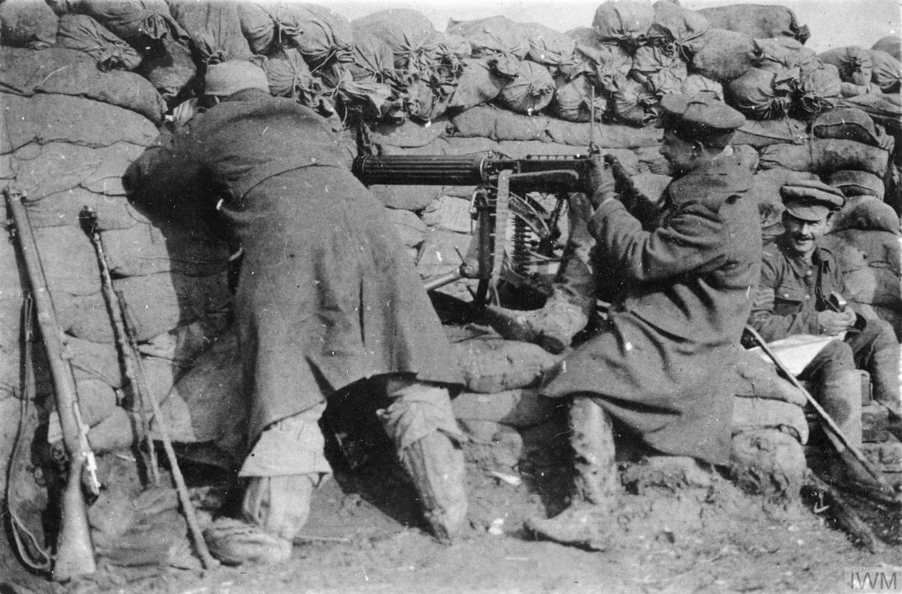 Captain Keating spots for a fellow officer of the 2nd Battalion, Royal Munster Fusiliers, as he fires a machine gun in the trenches at Festubert, 1915.